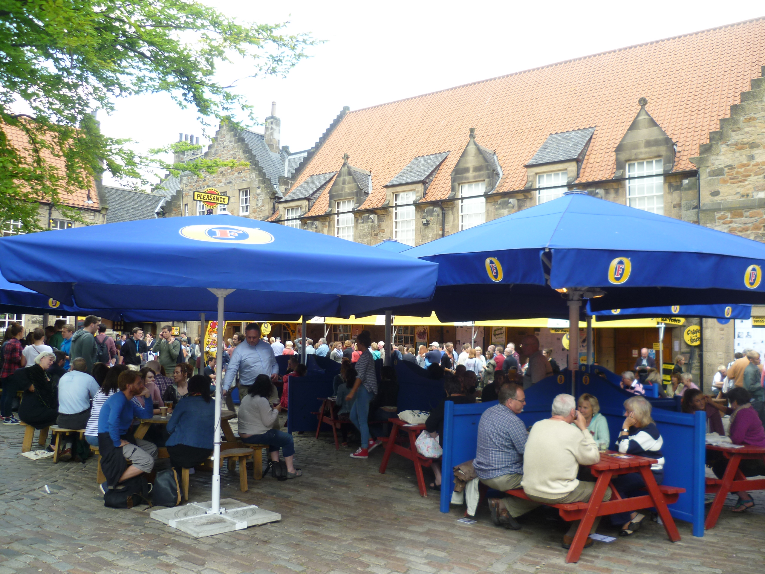 Pleasance Courtyard, Edinburgh Festival 2013